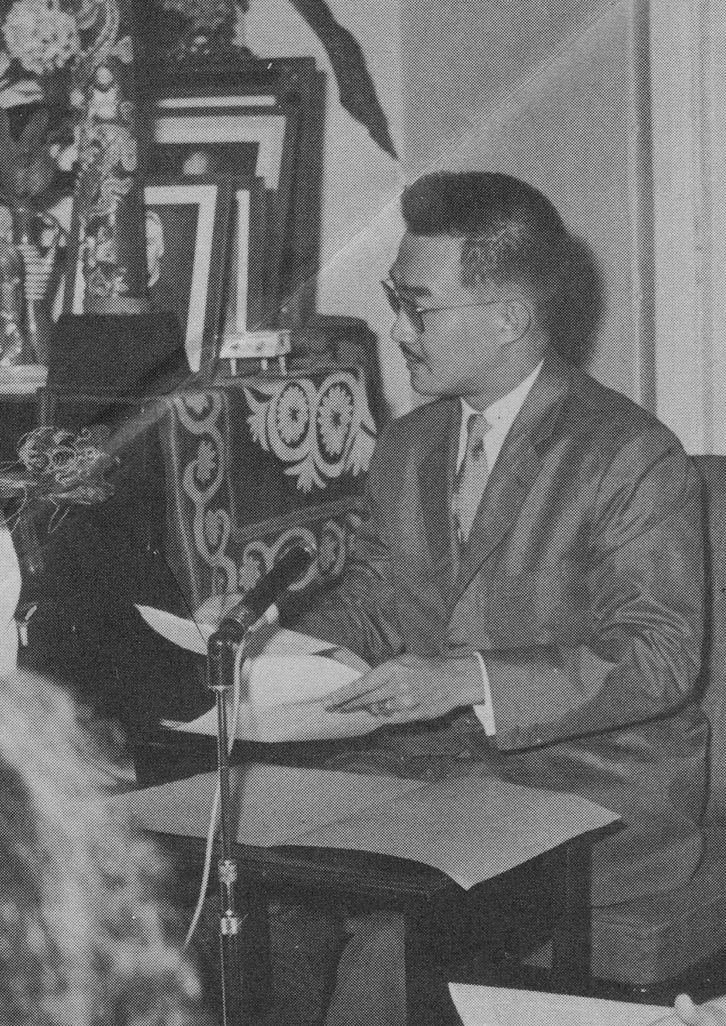 Nguyen Phung, Director of the National School of Music, Saigon, Republic of Vietnam.